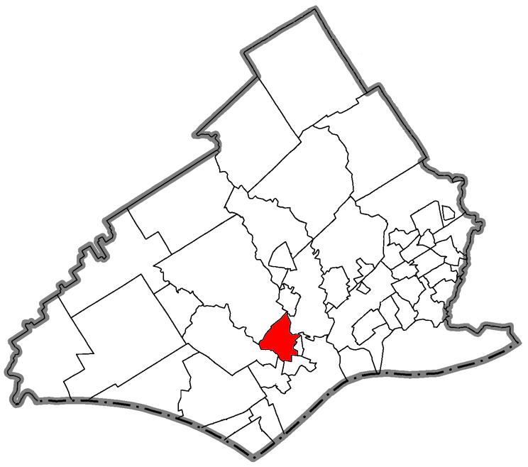 Showing the location within Delaware County, Pennsylvania.